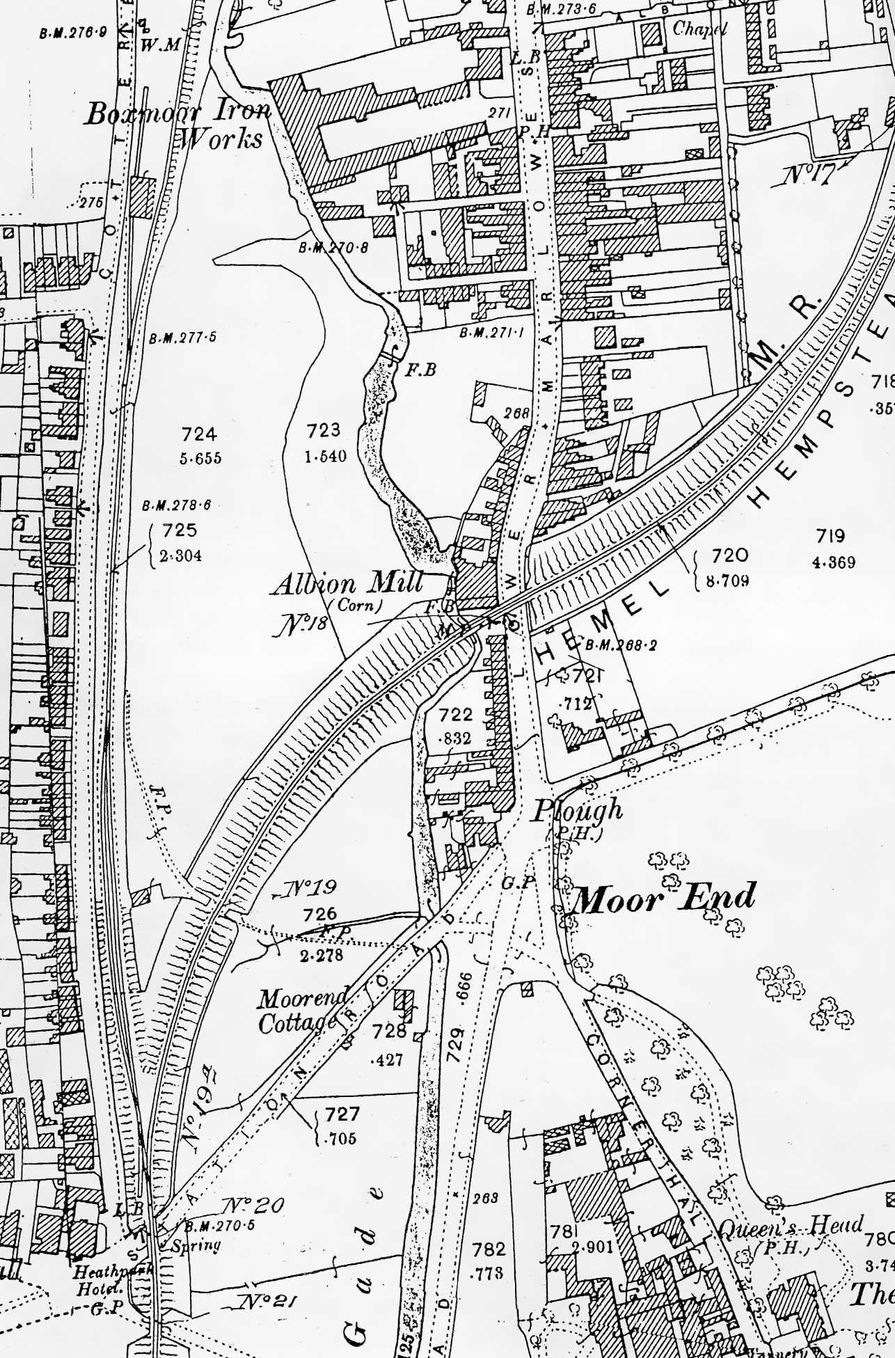 1898 map of Boxmoor, Hemel Hempstead, Hertfordshire, UK, showing the route of the former Nickey Line (dismantled 1960); in 1905 Heath Park Halt opened below the junction (bottom left) with the Cotterells Iron Works Sidings